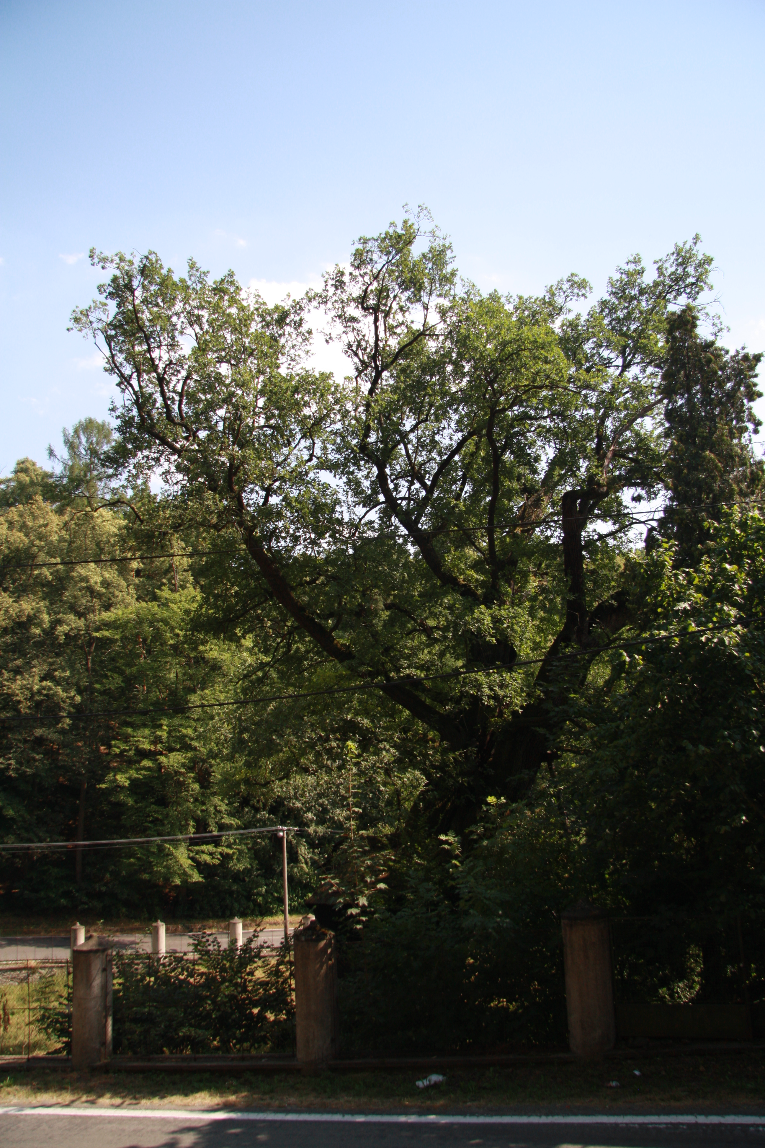 Žižkův dub in 2013 in Náměšť nad Oslavou, Třebíč District.